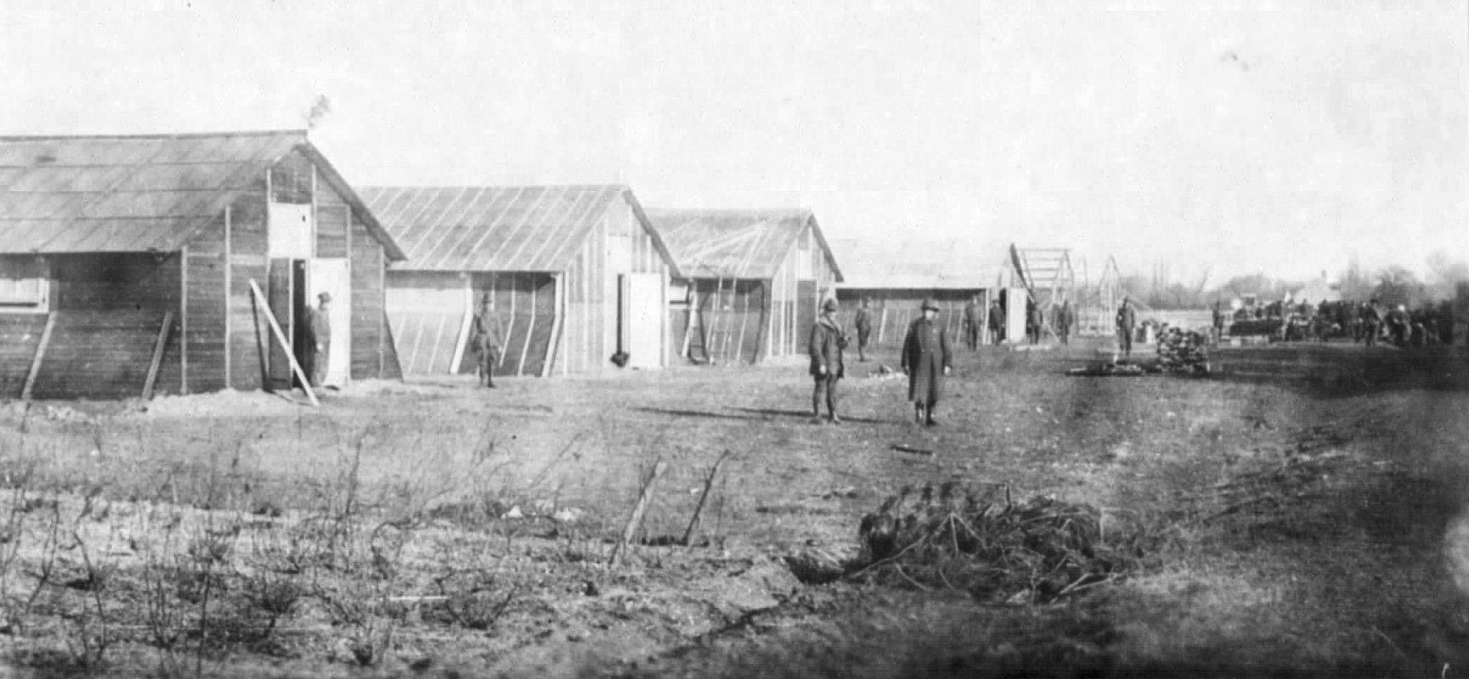 Romorantin Aerodrome - Barracks